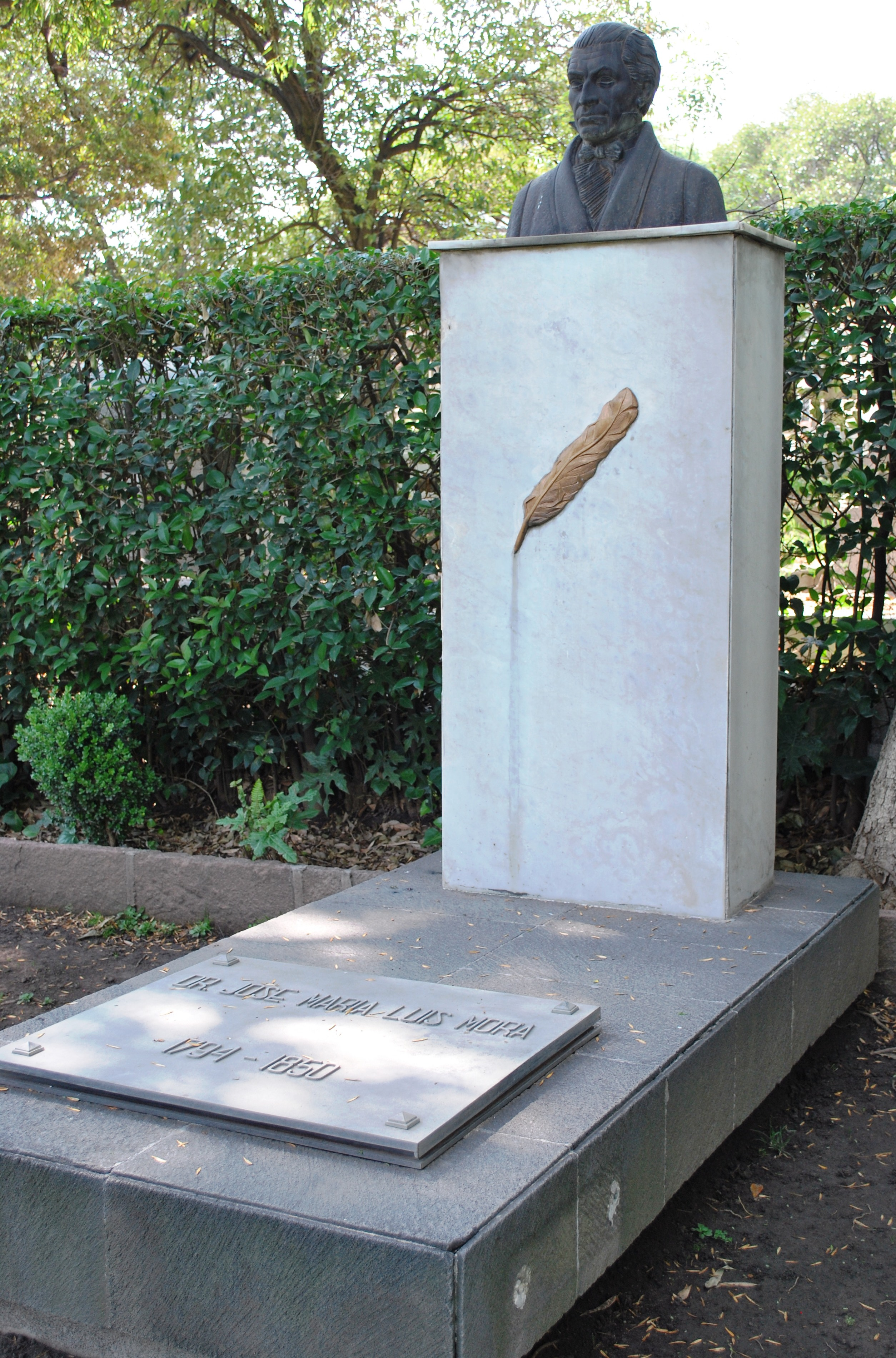 Tomb of Dr Jose Maria Luis Mora in the Panteon Civil de Dolores cemetery in Mexico City